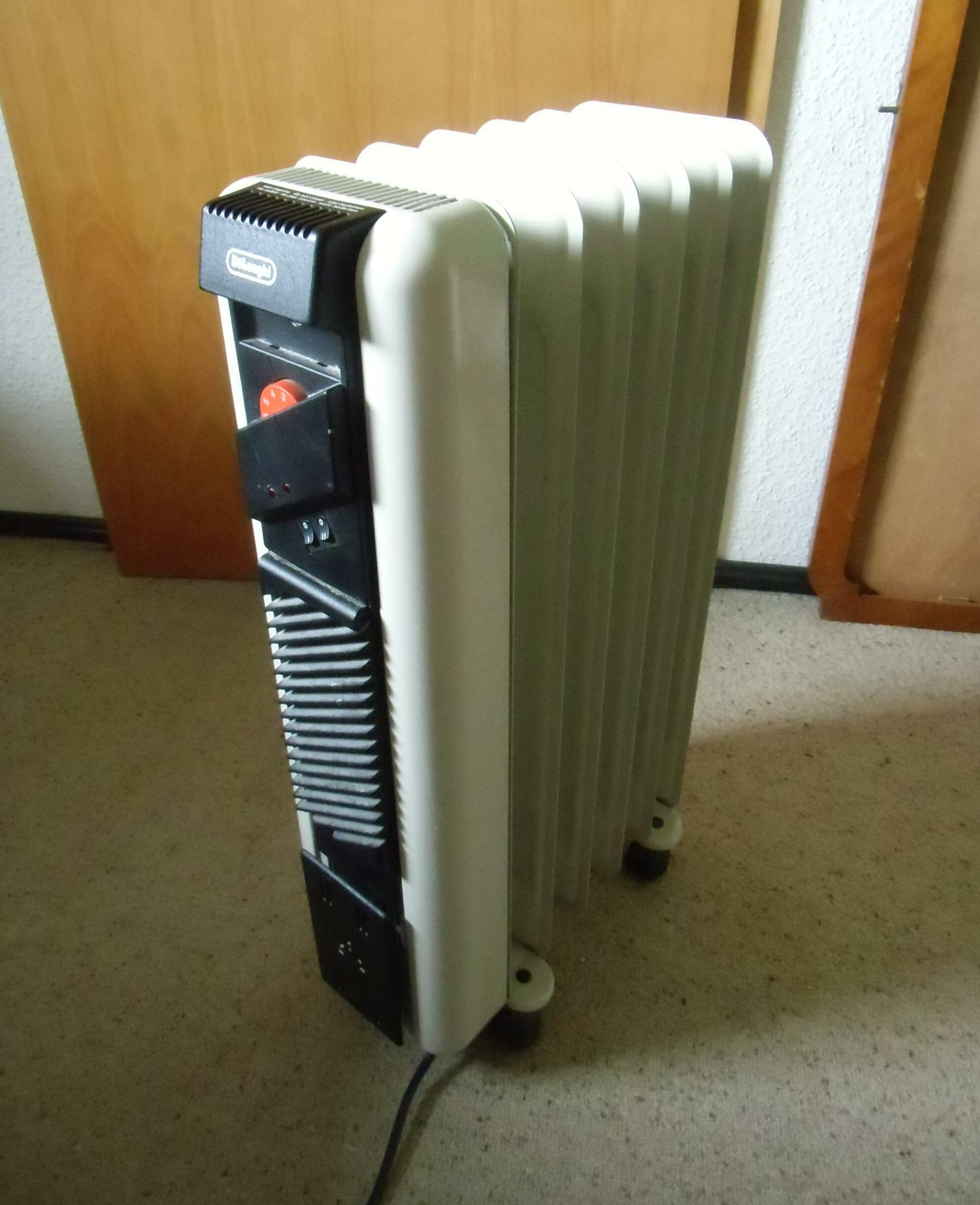 oil heater made by deLonghi